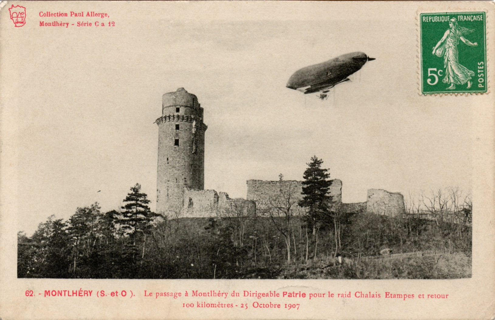 Airship Lebaudy Patrie, in Monthlery, near Paris- France in 1907 - vintage postcard - personal collection